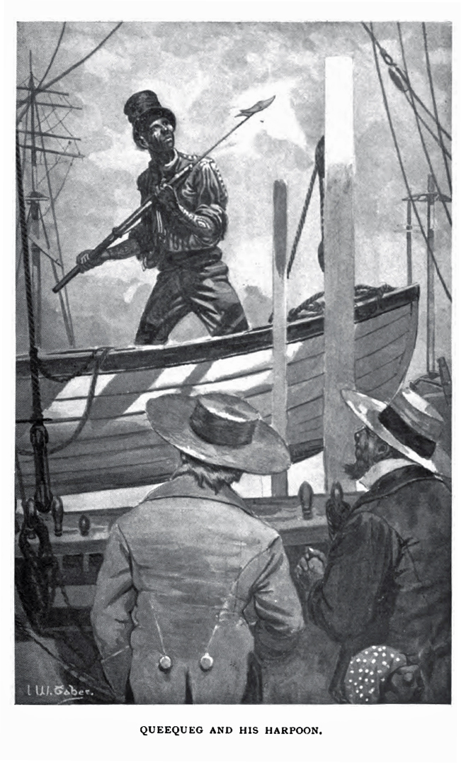 Illustration of Queequeg and his harpoon.